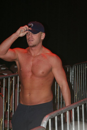 Eric Young after a TNA live event